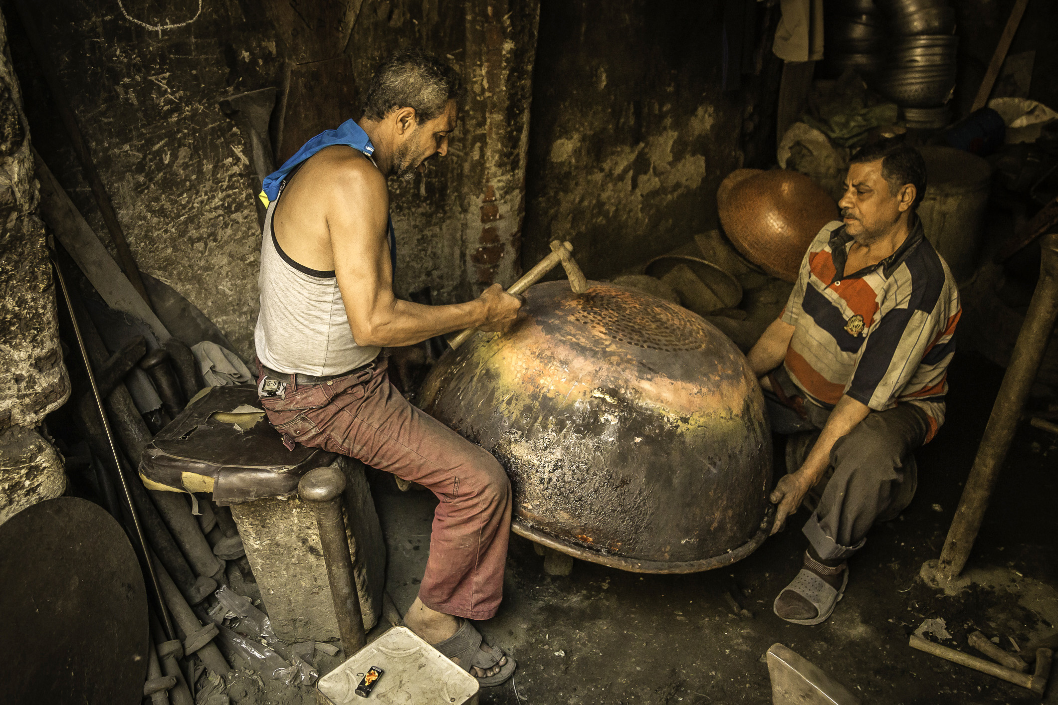 Manufacturer of copper-ware This is an image of "African people at work" from Egypt